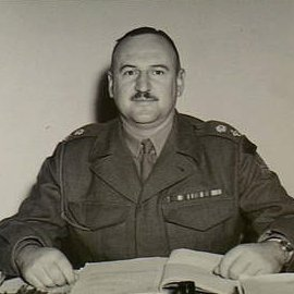 Lieutenant Colonel F. T. Whitelaw, General Staff Officer 1, "G" Branch, BCOF, Kure, Japan. c.1951-11-25.